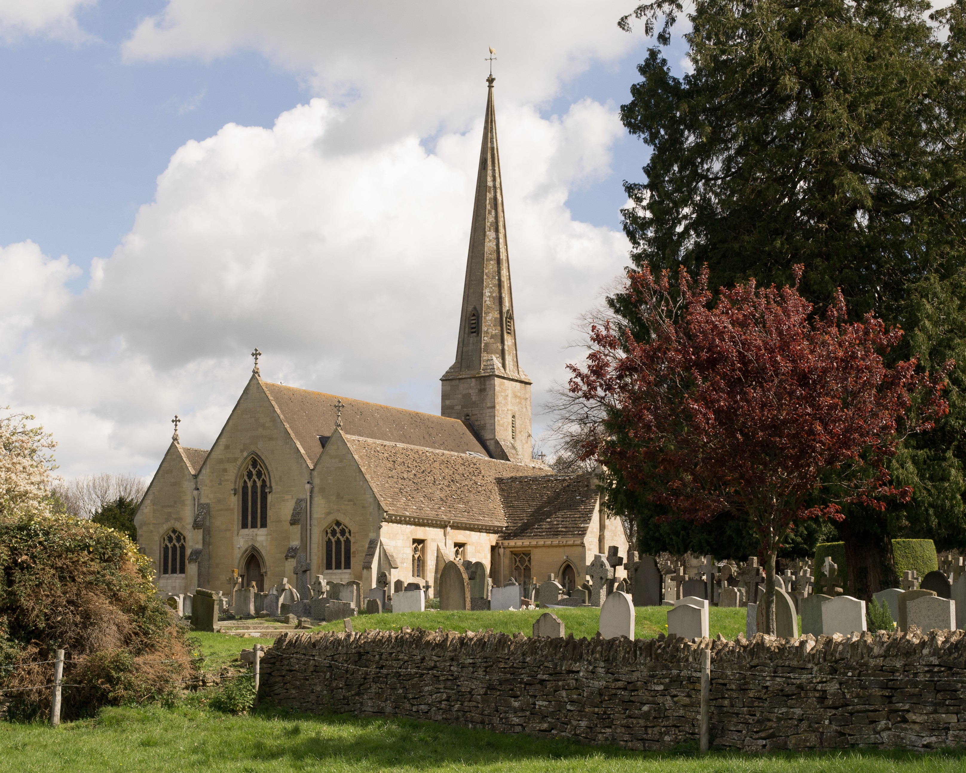 St Peter's parish church, Leckhampton, Gloucestershire, seen from the southwest